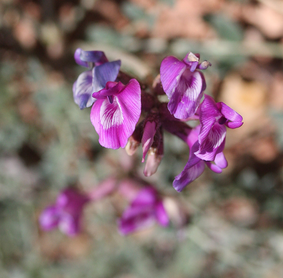 Zion Milkvetch bloom, Zion Canyon, April 2016 Astragalus zionis